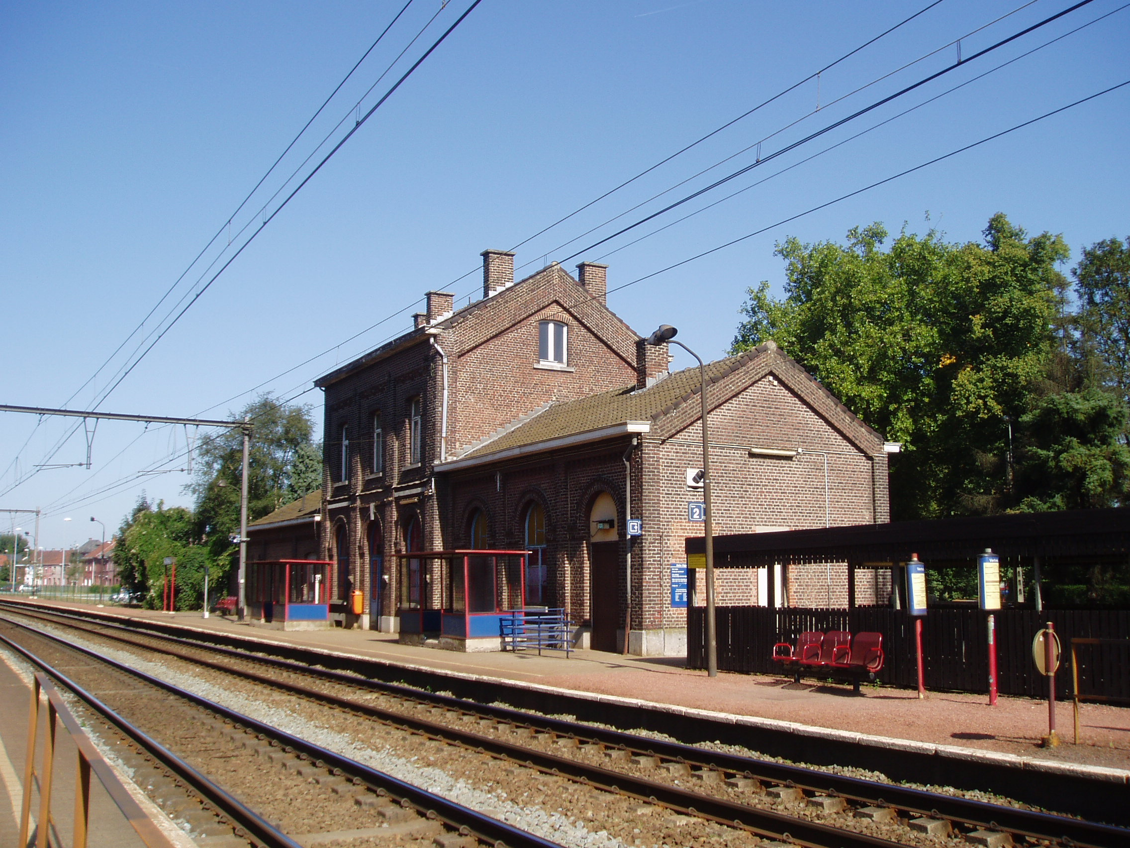 Old railway station in village Wijgmaal, Belgium. No longer in use.